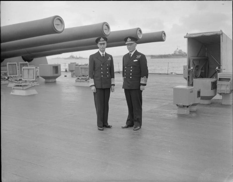 HM King George VI with Admiral Sir John Tovey, Commander in Chief Home Fleet, on the quarterdeck of HMS KING GEORGE V in northern waters.